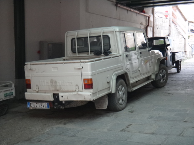 Are those rear lights from the first generation Mitsubishi Pajero/Shogun??